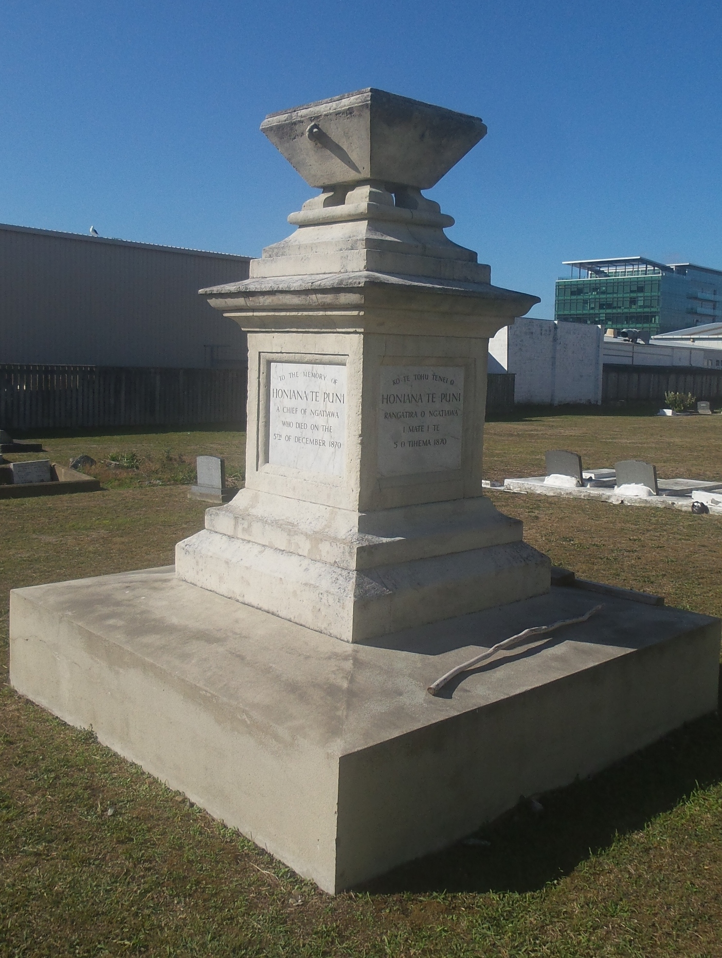 Memorial to Honiana Te Puni-kokopu at the Te Puni Street urupā / burial ground in Petone (Pito-one), Wellington, New Zealand